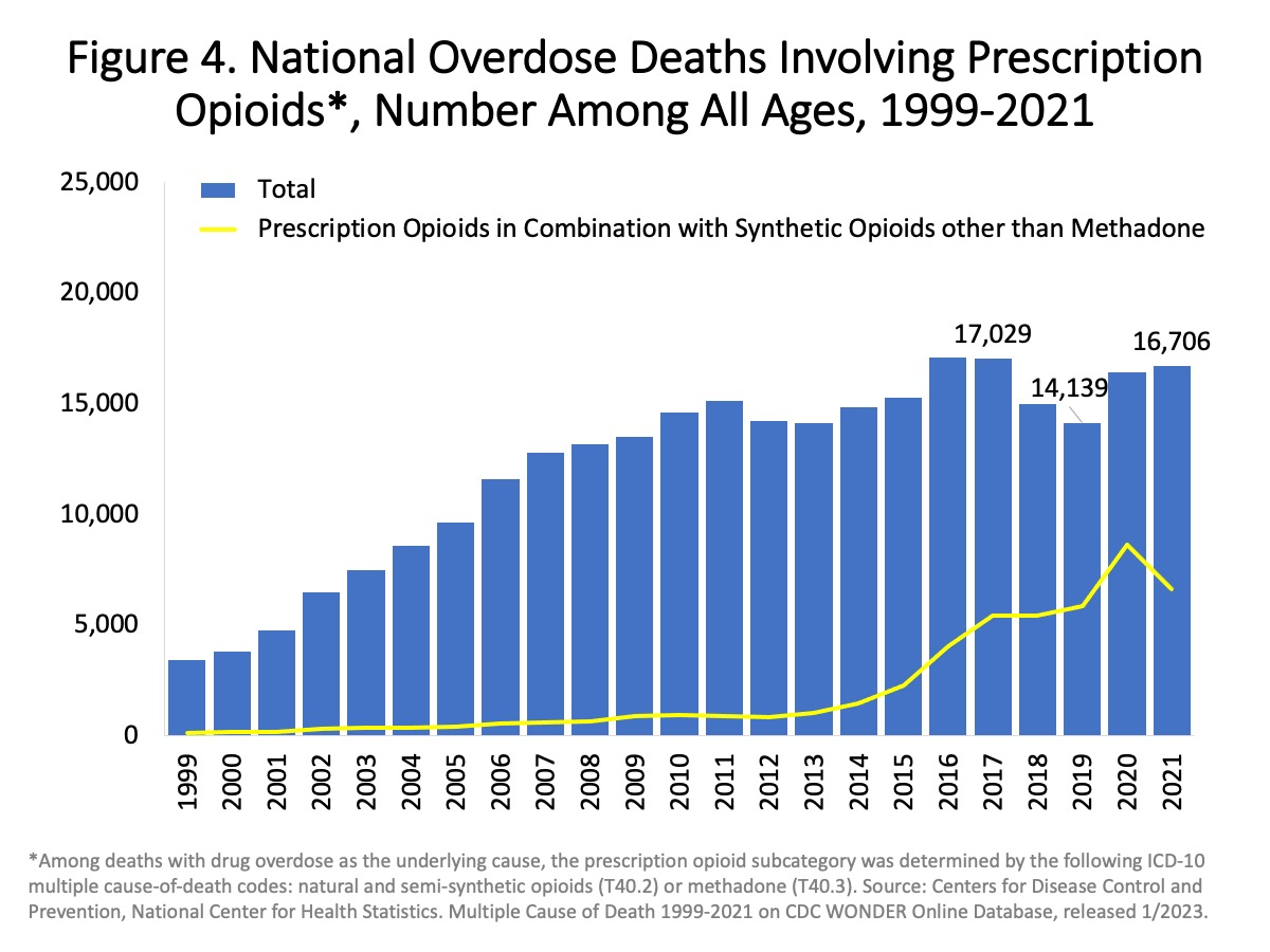 "​National Overdose Deaths—Number of Deaths Involving Prescription Opioid Pain Relievers (excluding non-methadone synthetics). The figure above is a bar chart showing the total number of U.S. overdose deaths involving opioid pain relievers (excluding non-methadone synthetics) from 2002 to 2016. Non-methadone synthetics is a category dominated by illicit fentanyl, and has been excluded to more accurately reflect deaths from prescription opioids. The chart is overlayed by a line graph showing the number of deaths of females and males."